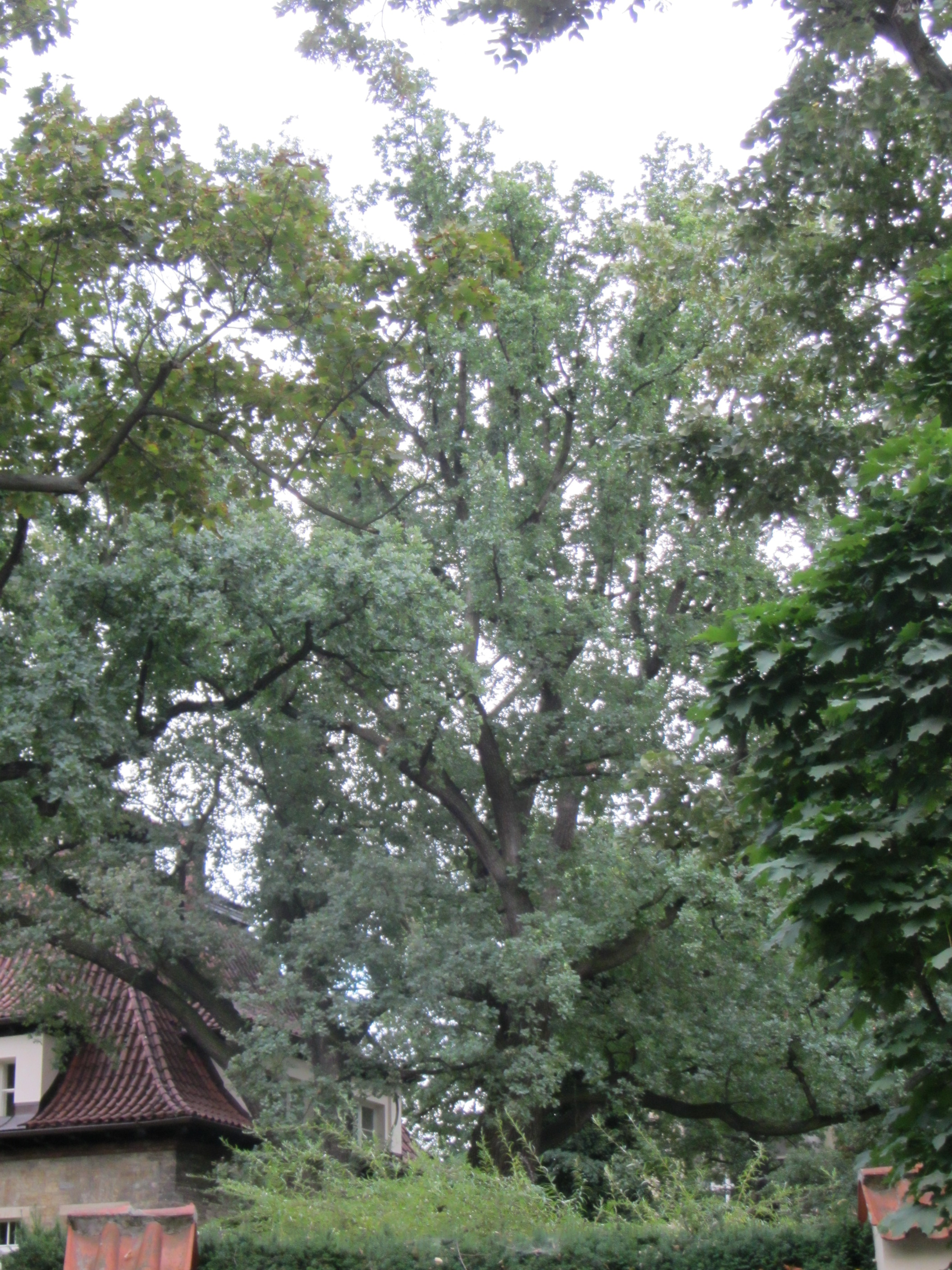 Quercus robur, remarkable tree in Nad Výšinkou street, Prague